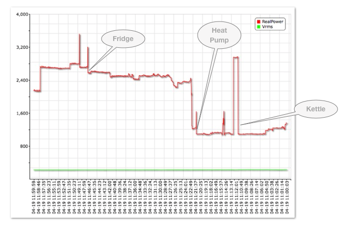 Power used in the home as measured by CHtech Energy Monitor